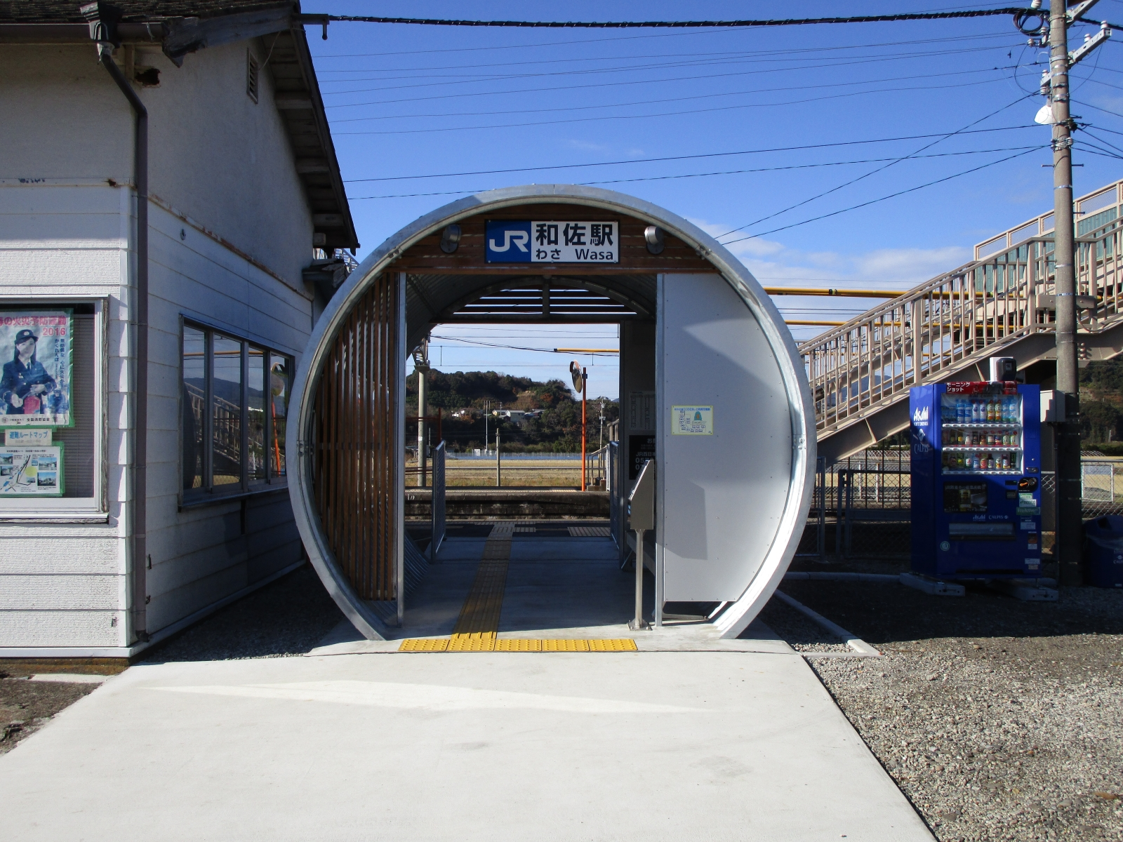 Wasa Station